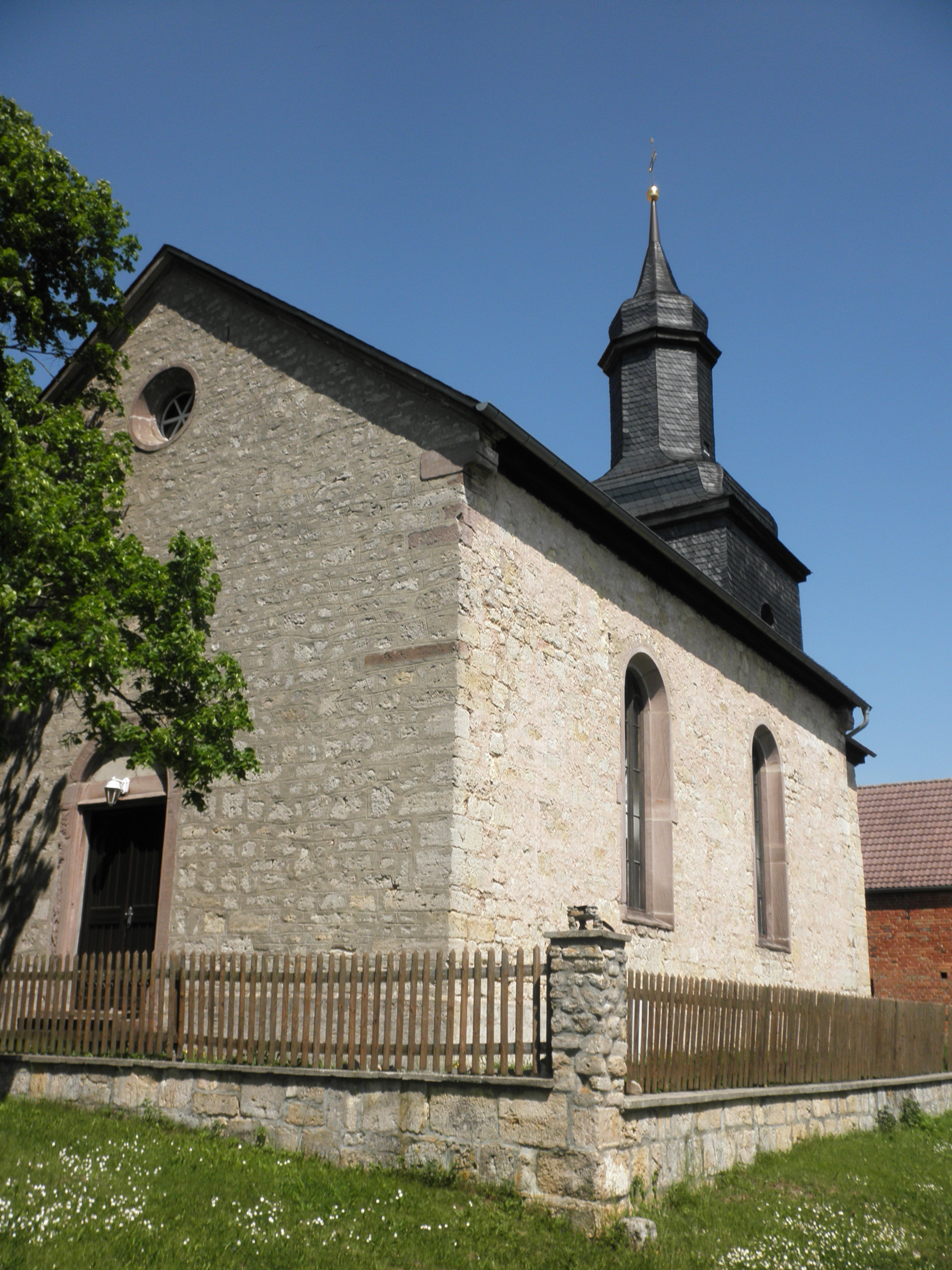 Church in Drößnitz in Thuringia